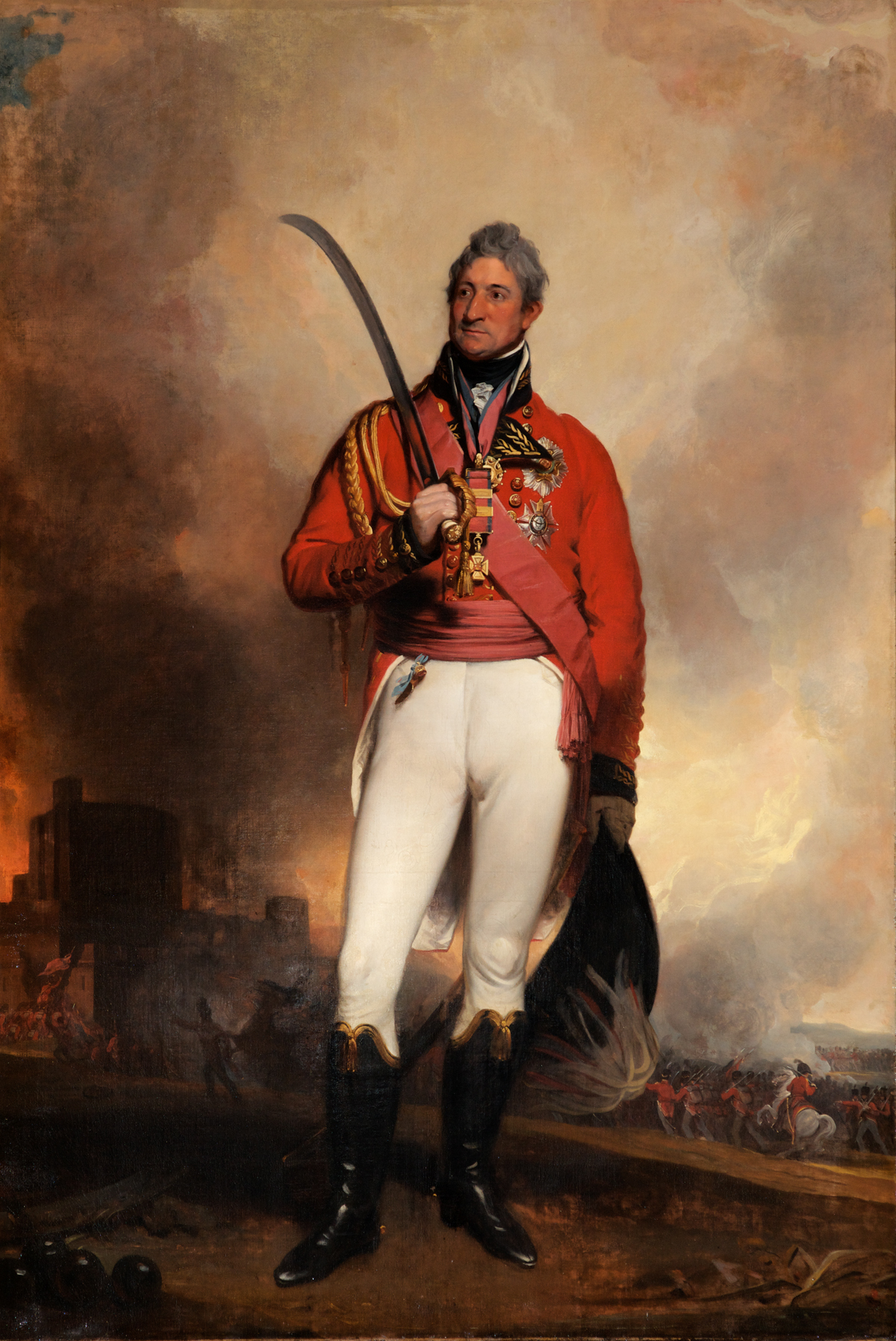 Depicted person: Thomas Picton